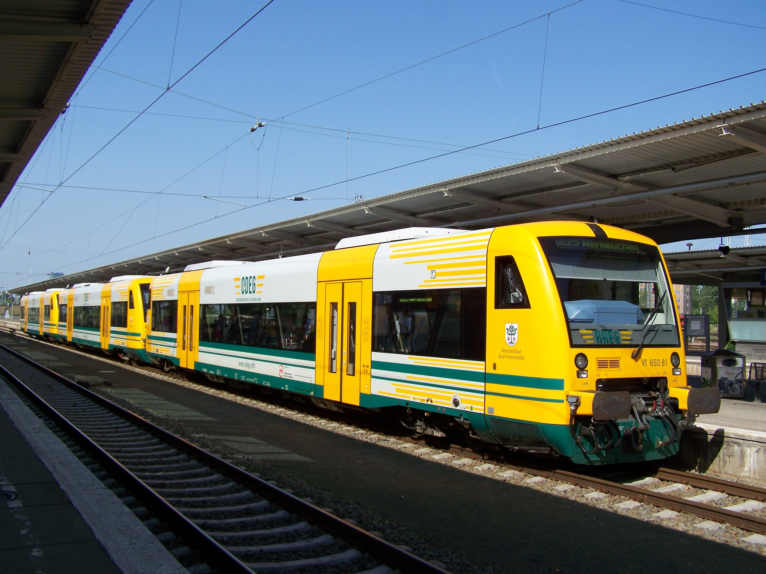 Train of Ostdeutsche Eisenbahn at Berlin-Lichtenberg.